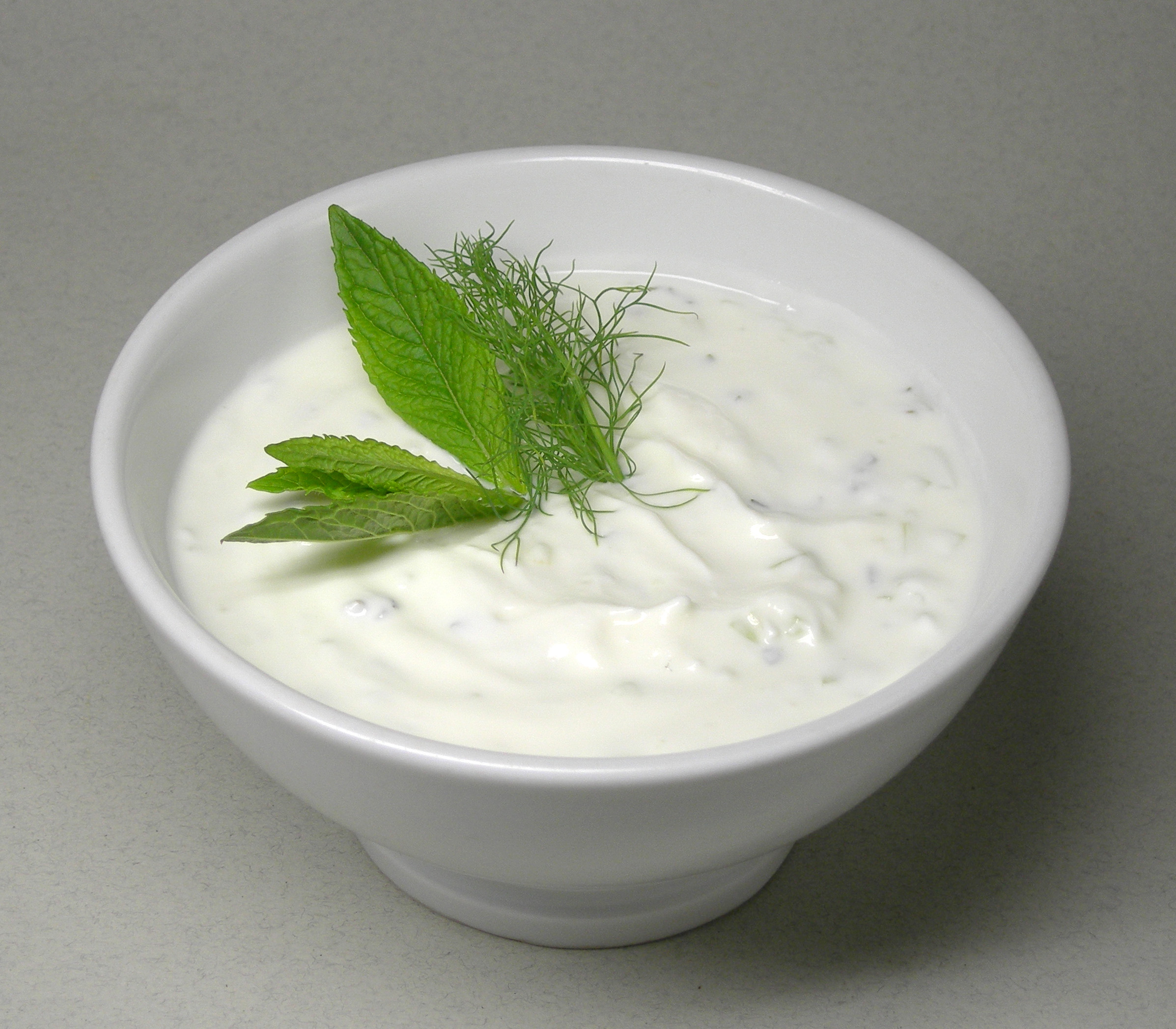 Turkish cacık, made with yoghurt and cucumber.